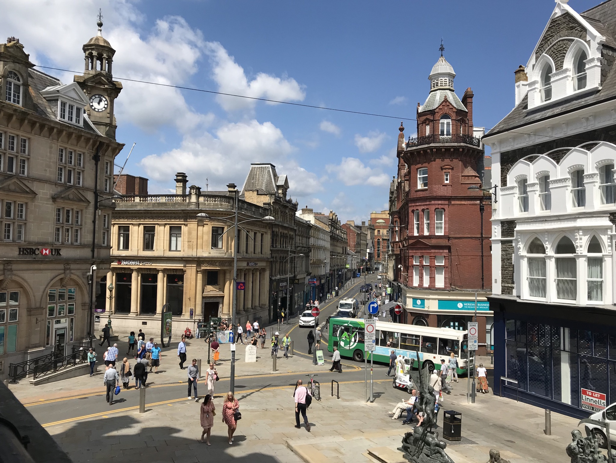 View of the intersection of Bridge Street and High Street, from the Westgate Buildings, Newport Taken using a mobile phone during the Newport Rising celebrations in July 2019